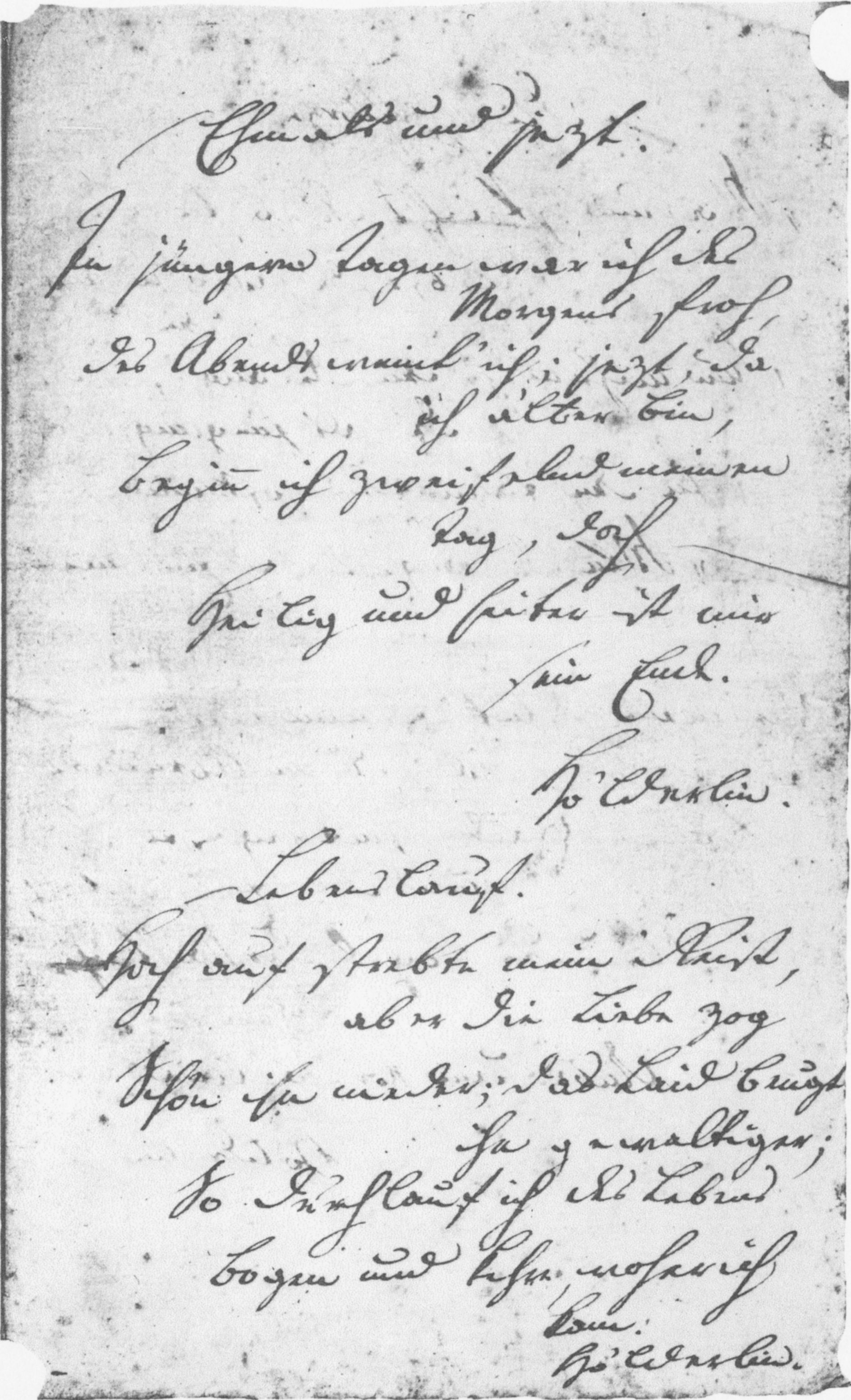 Manuscript of 2 poems by Friedrich Hölderlin, namely Ehmals und jezt and Lebenslauf